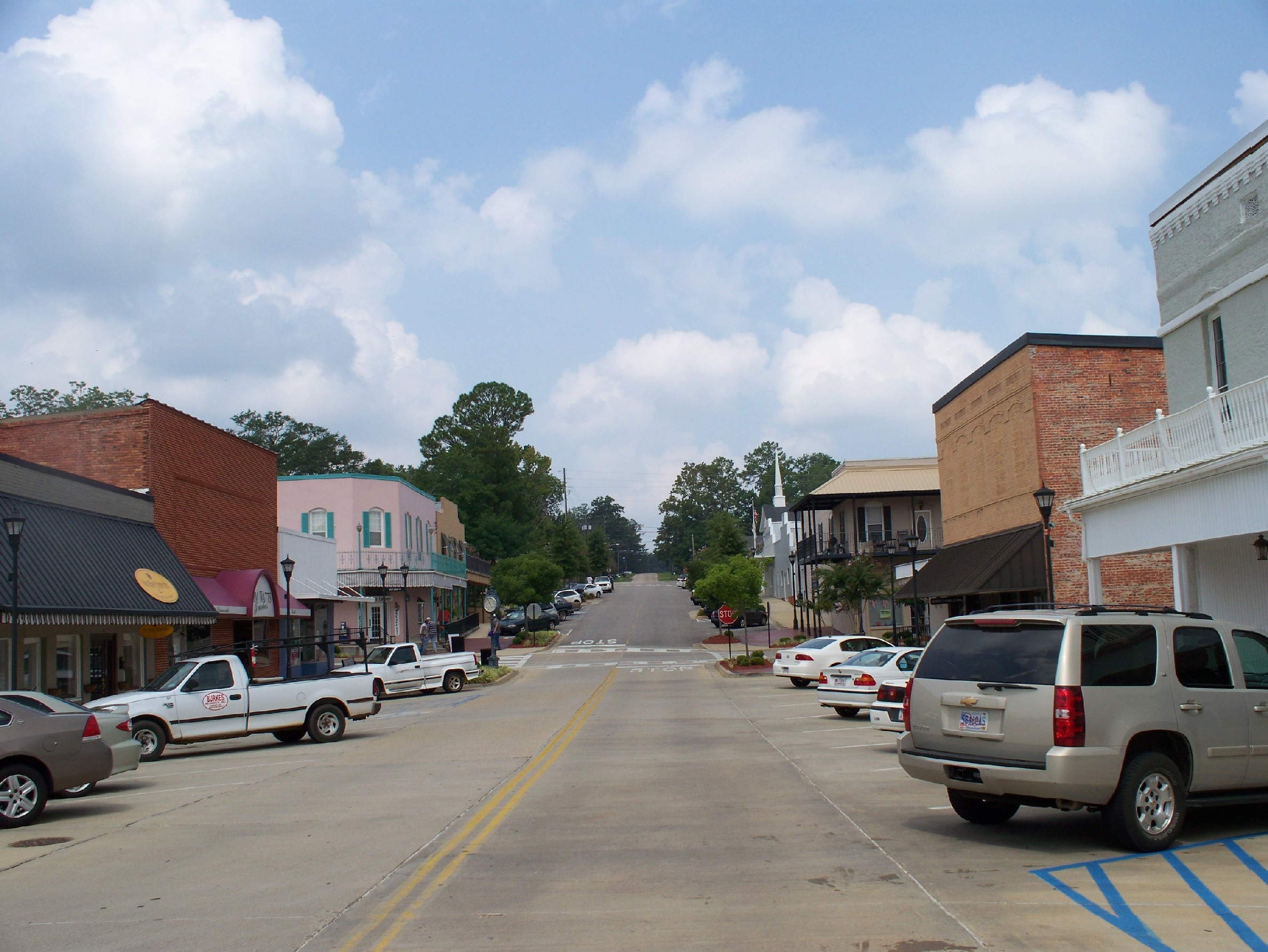 Downtown Thomasville, Alabama. Looking west down West Front Street.